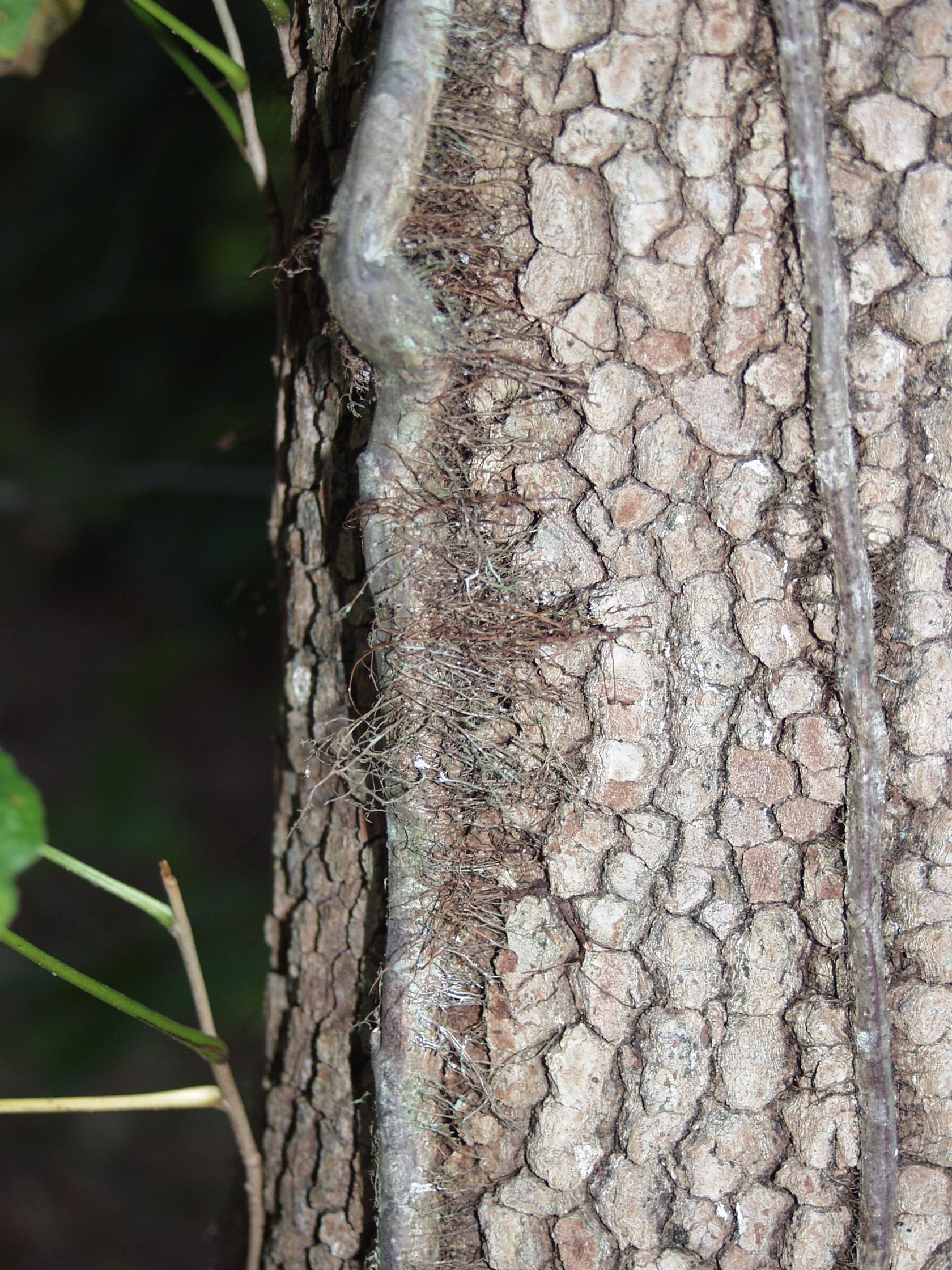 Poison-ivy vine located in Mount Airy, NC